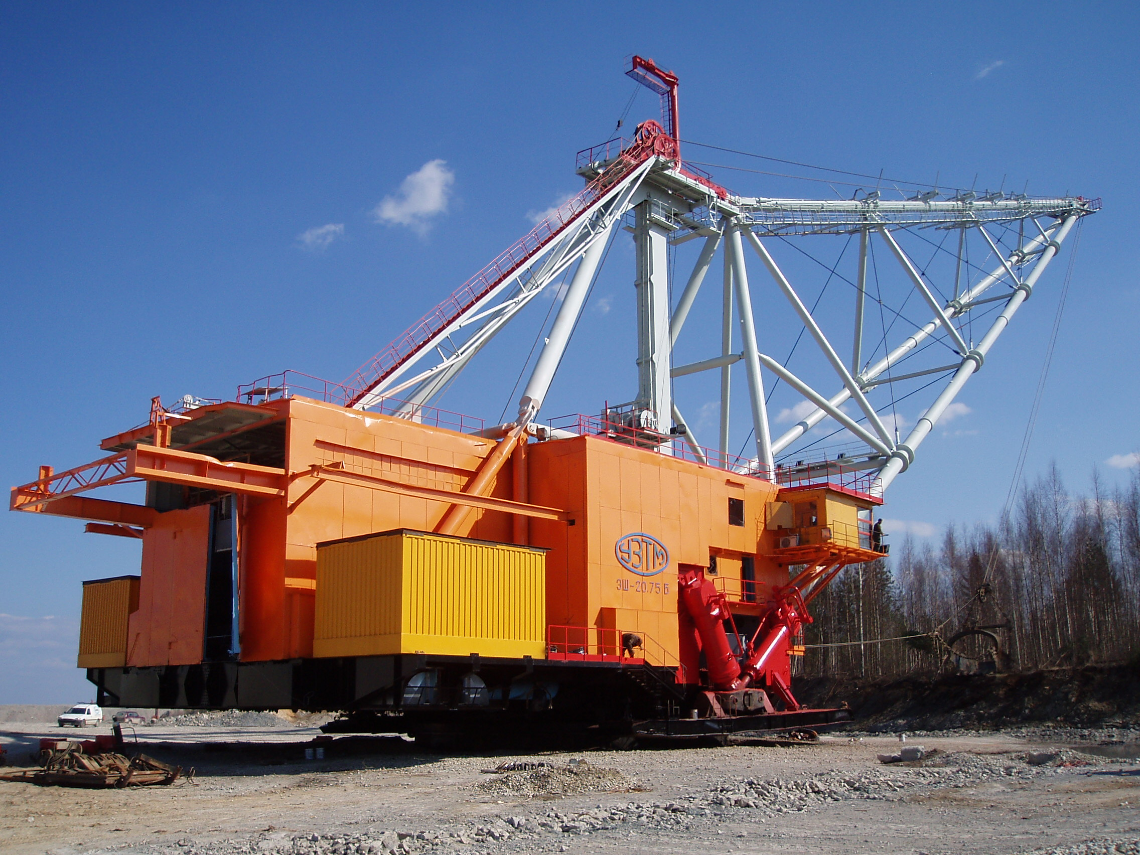 Dragline excavator in the Baltic Oil Shale Basin Narva 26 April 2005